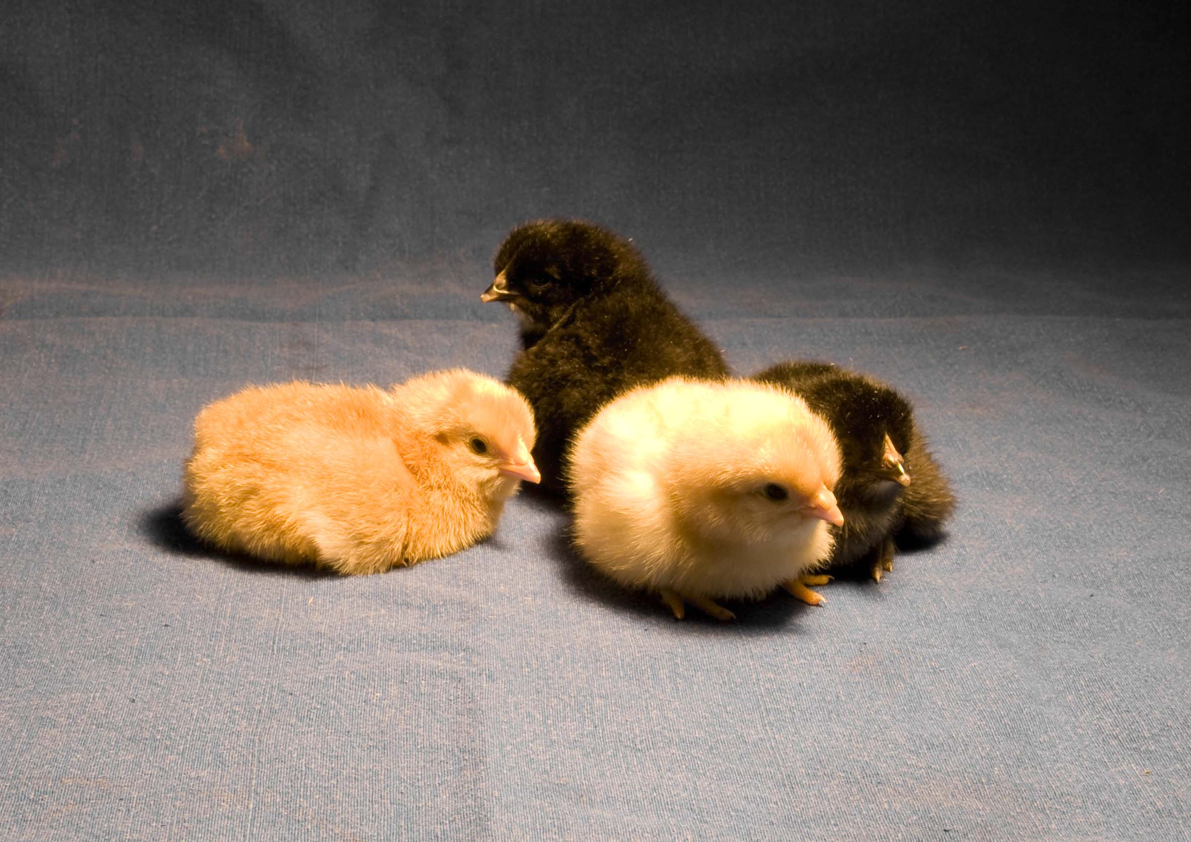 chick